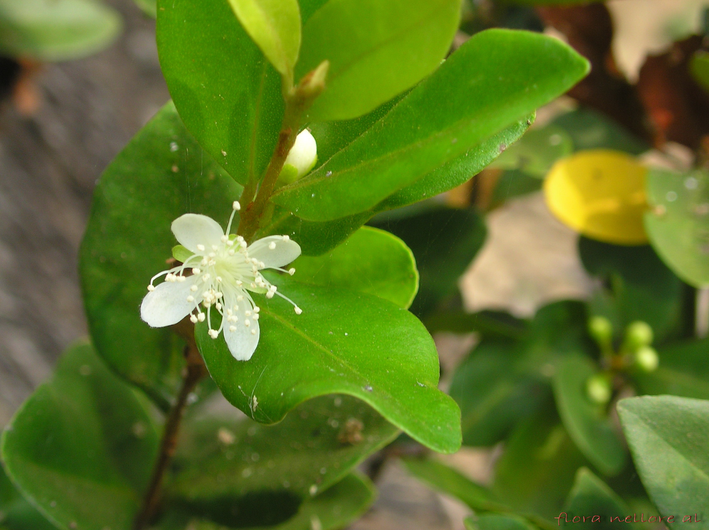 Family: Myrtaceae If this is an Indian species, then it refers to Eugenia roxburghii DC. Distribution: Common in scrubs along the coast. Limited to Peninsular India. Description: Evergreen shrubs, 2-4 mts tall. Leaves opposite,sub coriaceous, 3.5-7x2-3.5 cm ovate, or oblong-lanceolate, obtuse, base cuneate. Flowers solitary or fascicled, pretty white 1.2-2cm across. peduncles rusty villous, 0.5-1cm long; Calyx lobes 4, glabrous, nearly globose, Petals 4, Stamens numerous, Ovary 2 celled. Fruit a globose berry. Wood hard, Root paste mixed with goat milk is used to treat tonsils and gum swellings. Photographed at Pulicat lake near Sriharikota of Nellore district. Reference: Flora of Presidency of Madras by J.S.Gamble. Flora of Nellore district by B.Suryanarayana and A.S.Rao, ENVIS.